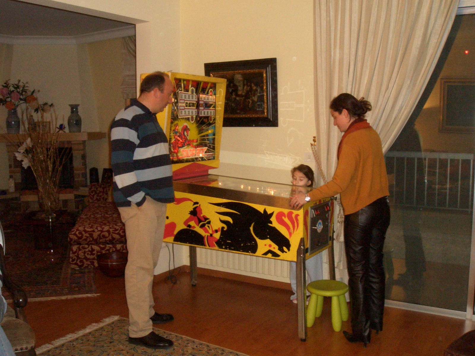 EM Pinball machine